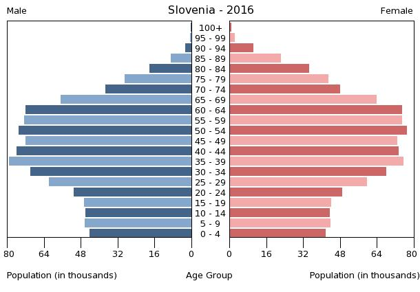 The population pyramid of Slovenia illustrates the age and sex structure of population and may provide insights about political and social stability, as well as economic development. The population is distributed along the horizontal axis, with males shown on the left and females on the right. The male and female populations are broken down into 5-year age groups represented as horizontal bars along the vertical axis, with the youngest age groups at the bottom and the oldest at the top. The shape of the population pyramid gradually evolves over time based on fertility, mortality, and international migration trends.